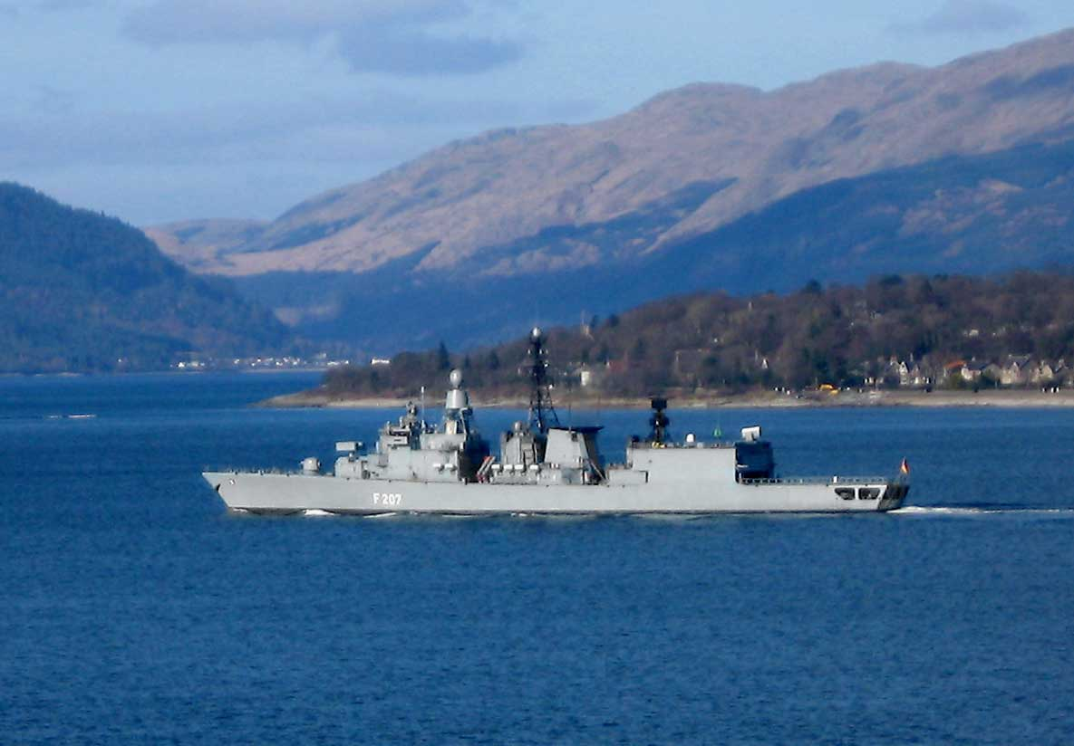 frigate F207 Bremen in the Firth of Clyde, passing Kilcreggan and the entrance to Loch Long, seen from Gourock, Scotland